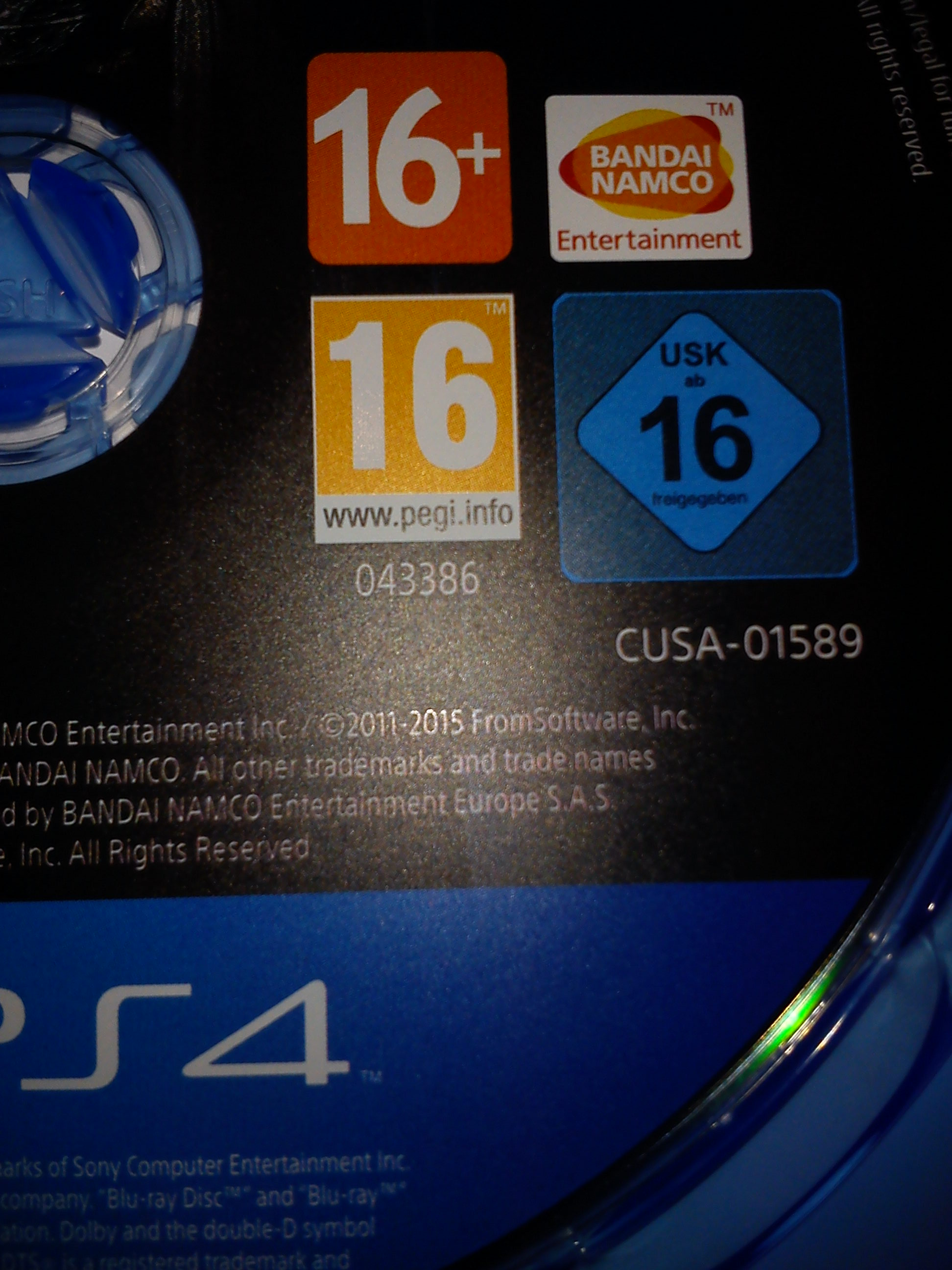 USK, Pegi and Russian Videogame Rating Systems on a current Videogame Disc